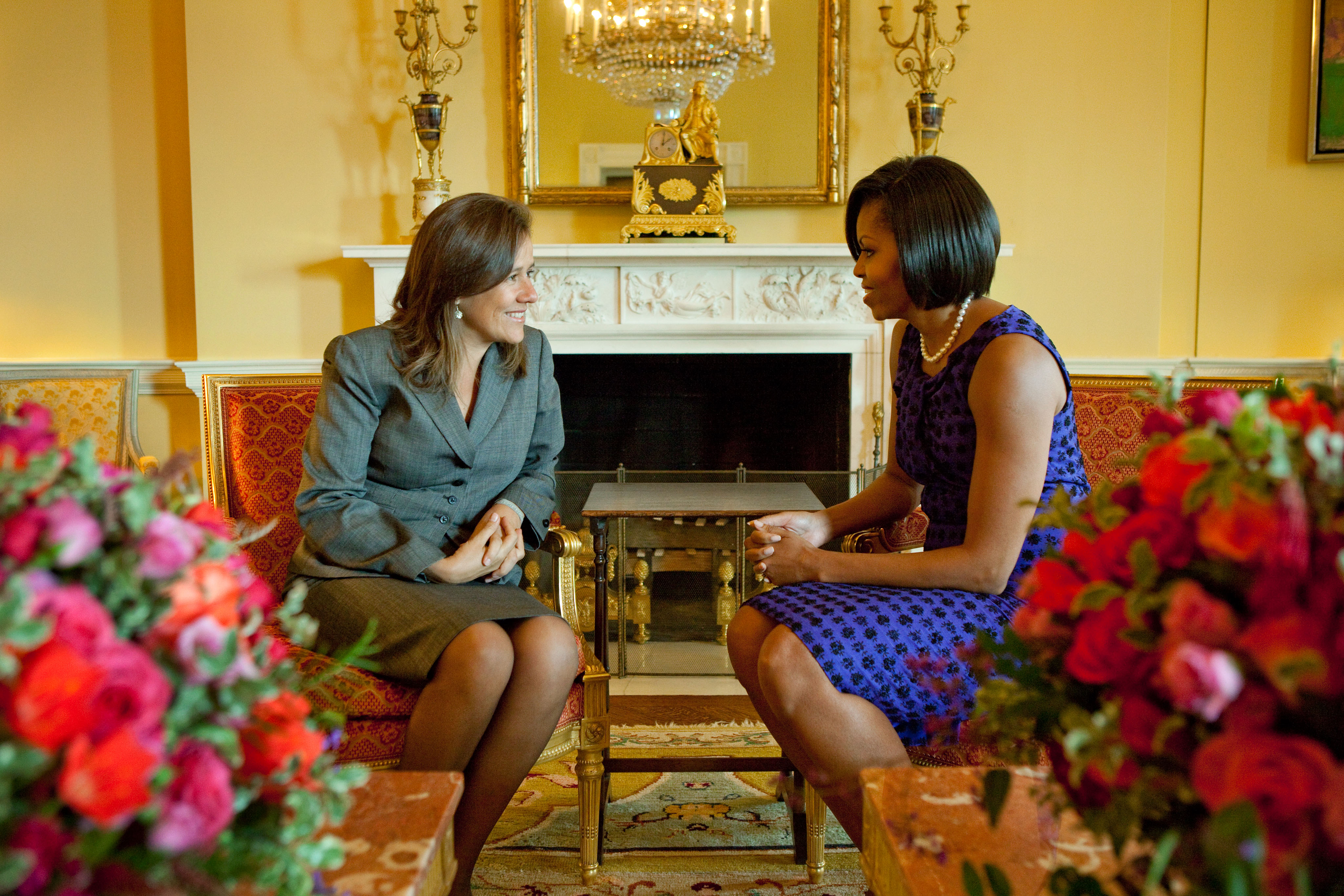 First Lady Michelle Obama greets Mrs. Margarita Zavala de Calderon, the First Lady of Mexico, in the Yellow Oval Room of the White House, Feb. 25, 2010. (Official White House Photo by Samantha Appleton)